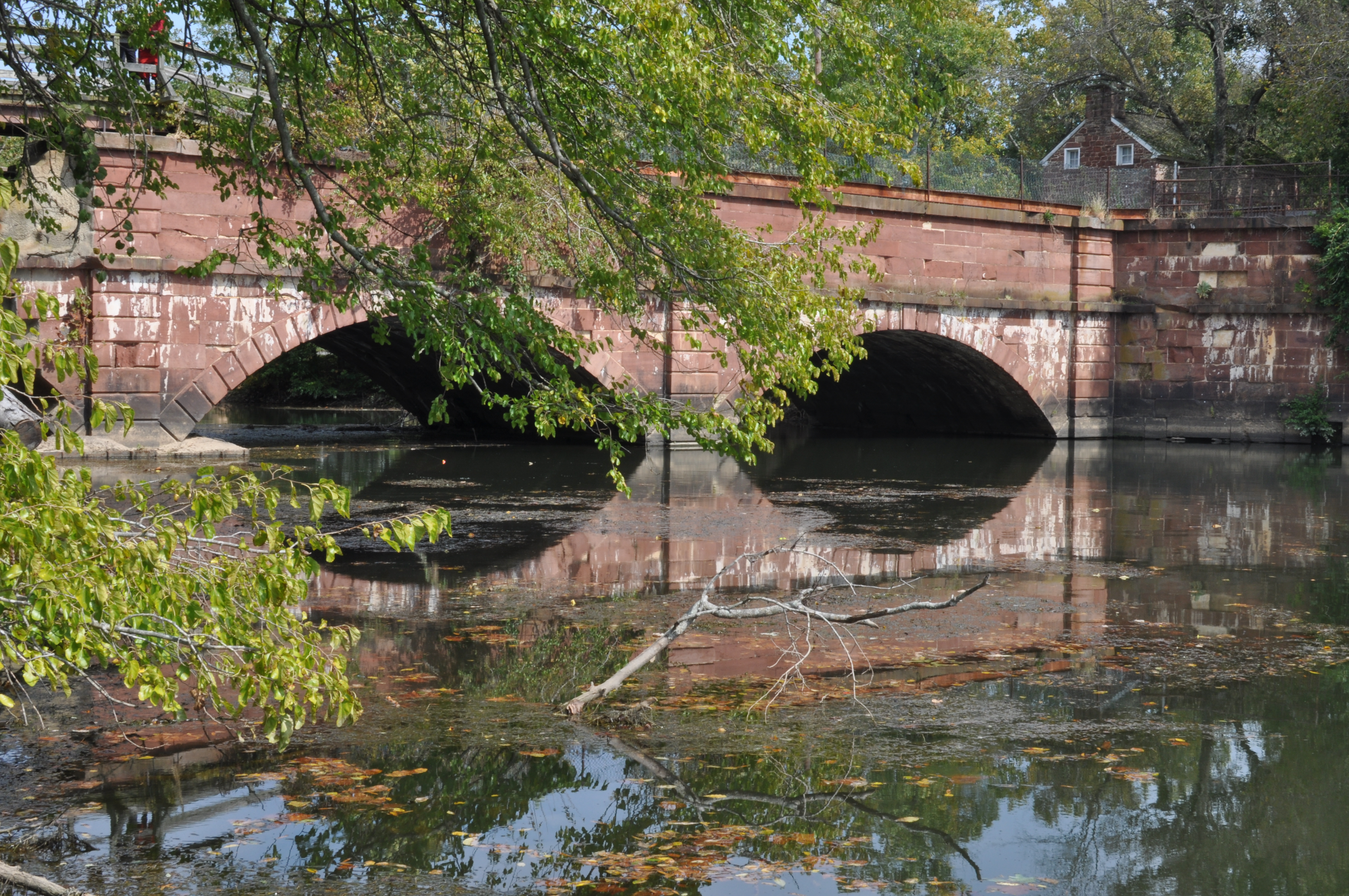 Seneca Aqueduct, near Poolesville, Maryland, USA. Built in 1833 to bring the C&O Canal over Seneca Creek. Riley's Lockhouse at upper right.